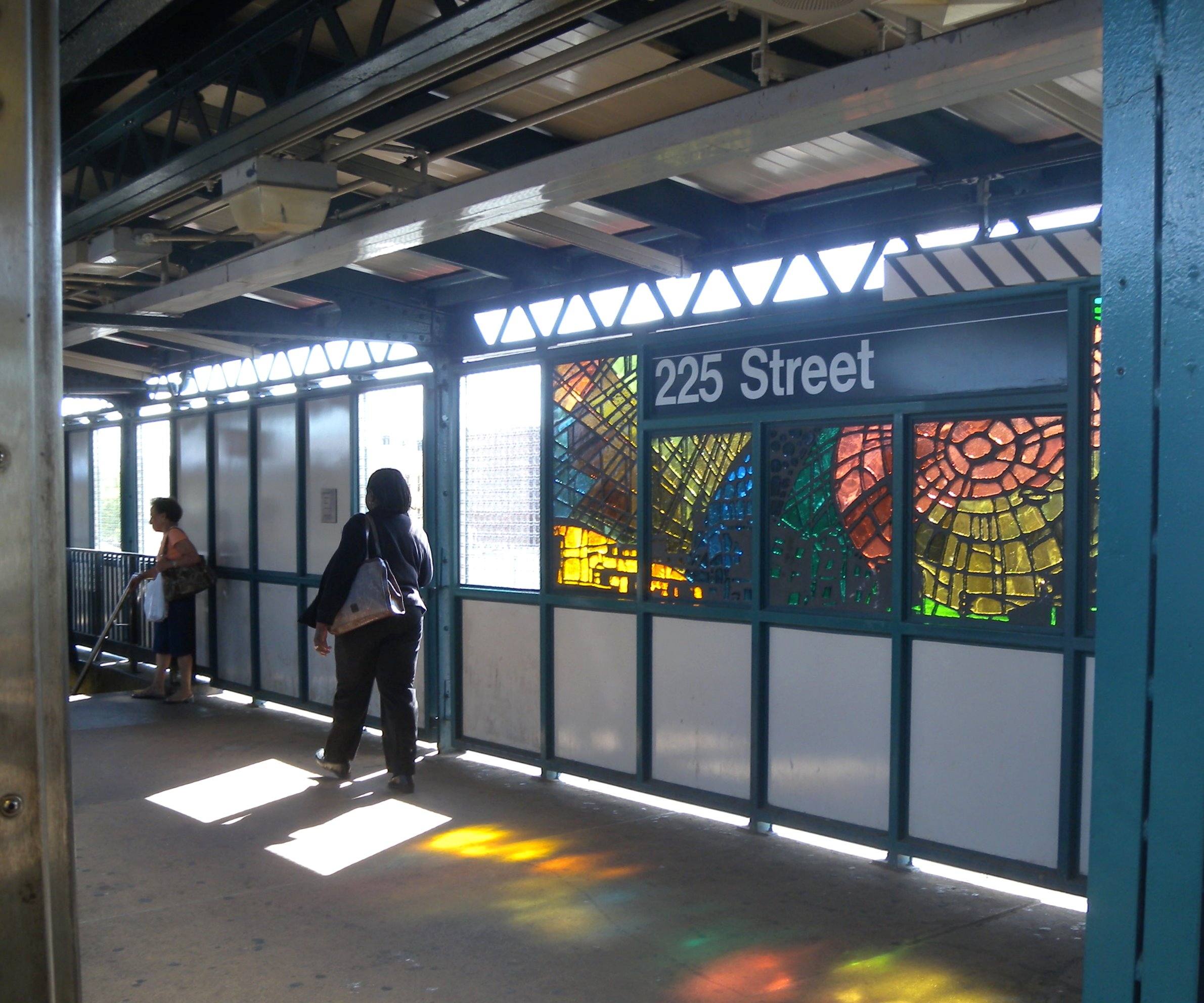 Looking west at 225 St southbound platform of White Plains Rd line on a sunny afternoon.